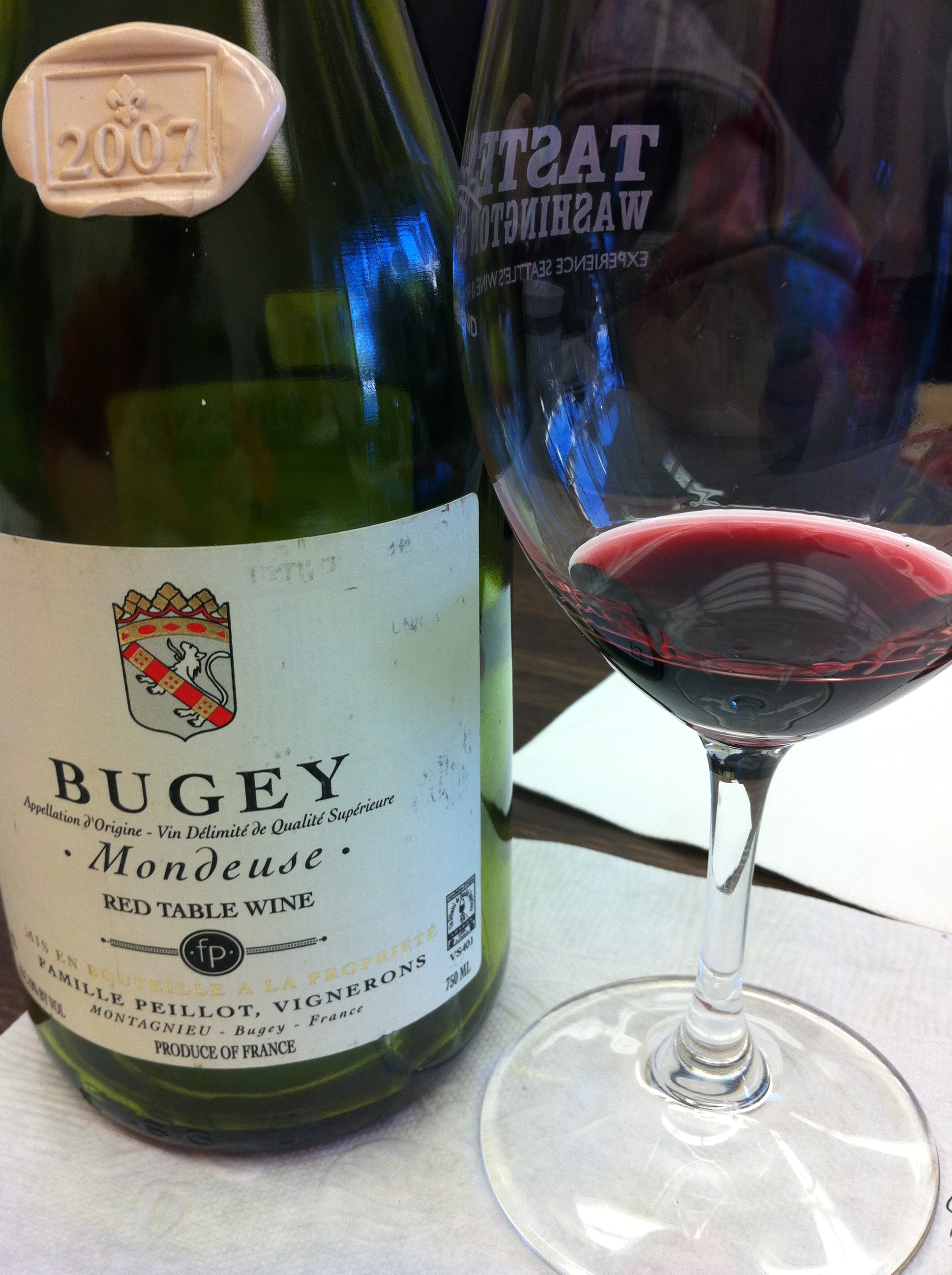 French wine from the Bugey wine region in Savoie made from the Mondeuse noire grape